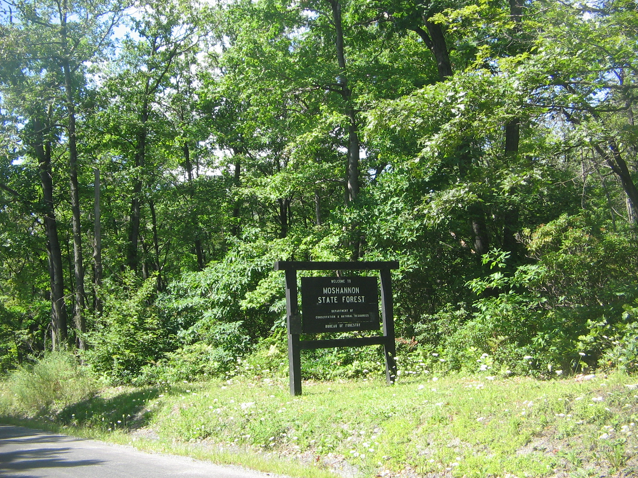 Moshannon State Forest sign on Pennsylvania Route 504, near Black Moshannon State Park, Rush Township, Centre County, Pennsylvania, USA.